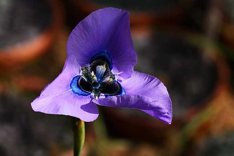 A very beautiful South African bulb which is unfortunately endangered in the wild being restricted to only a handful of sites in the northwestern Cape. Fortunately it grows well in cultivation.